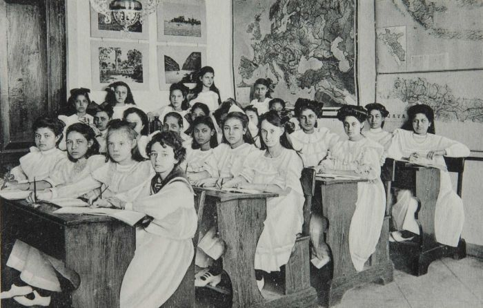 Mulo schoolgirls in a classroom at the Institute of the Franciscan Sisters